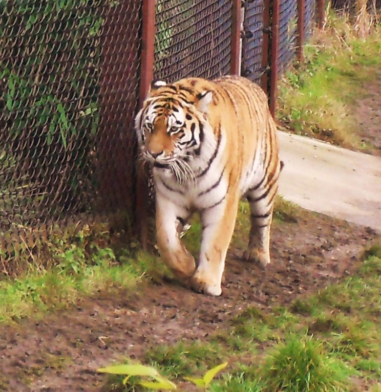 A tiger at Colchester Zoo